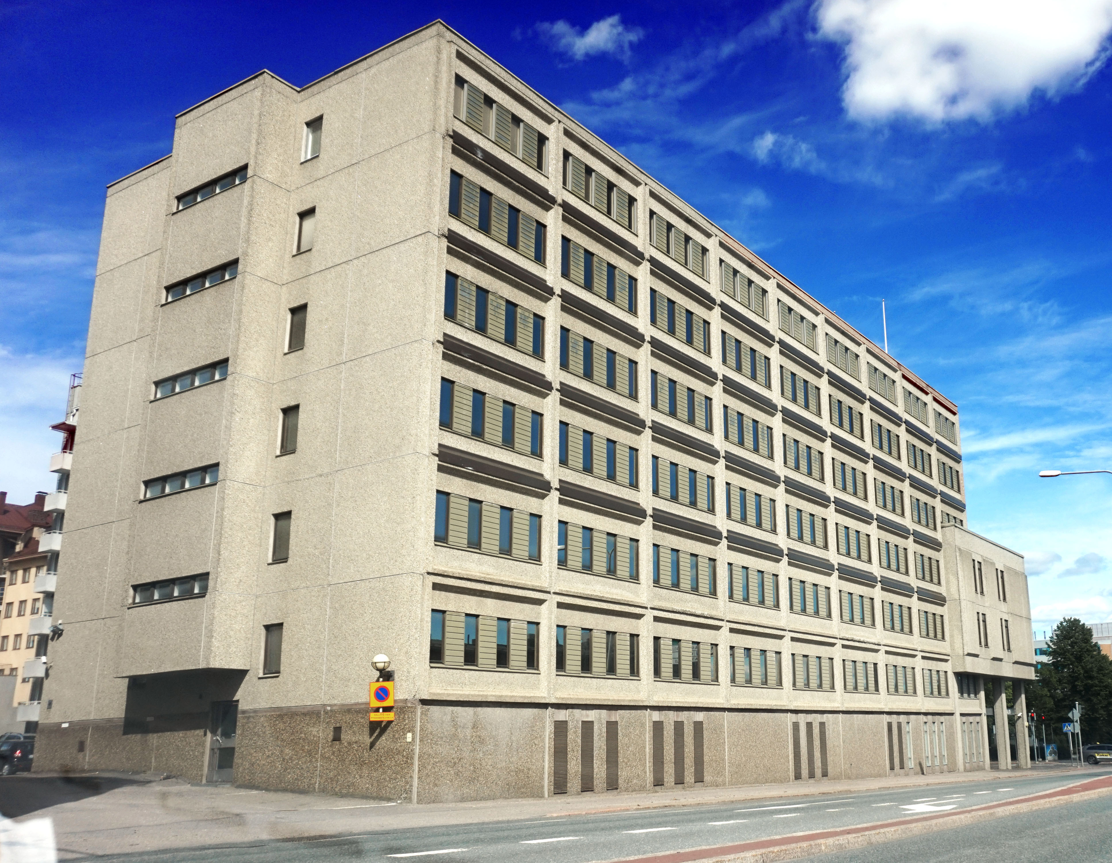 Courthouse in Lahti, Finland.